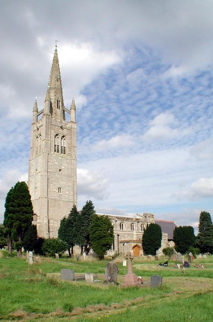 Church of England parish church of St James the Great, Hanslope, Buckinghamshire, seen from the southwest